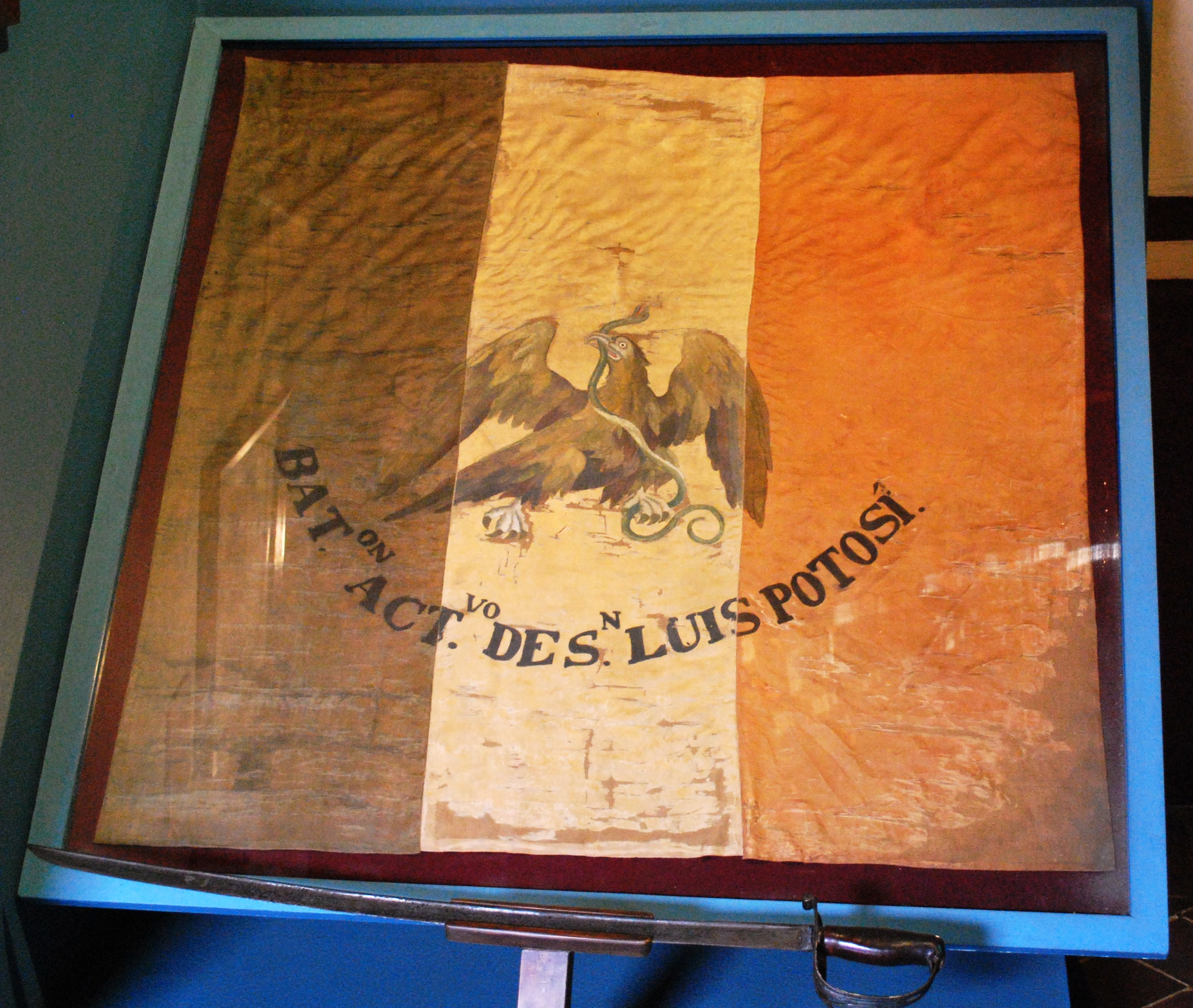 Battle flag of the Batalion Activo de San Luis Potosi on display at the Museo Nacional de las Intervenciones (ex Monastery of Churubusco) in Coyoacan borough, Mexico City